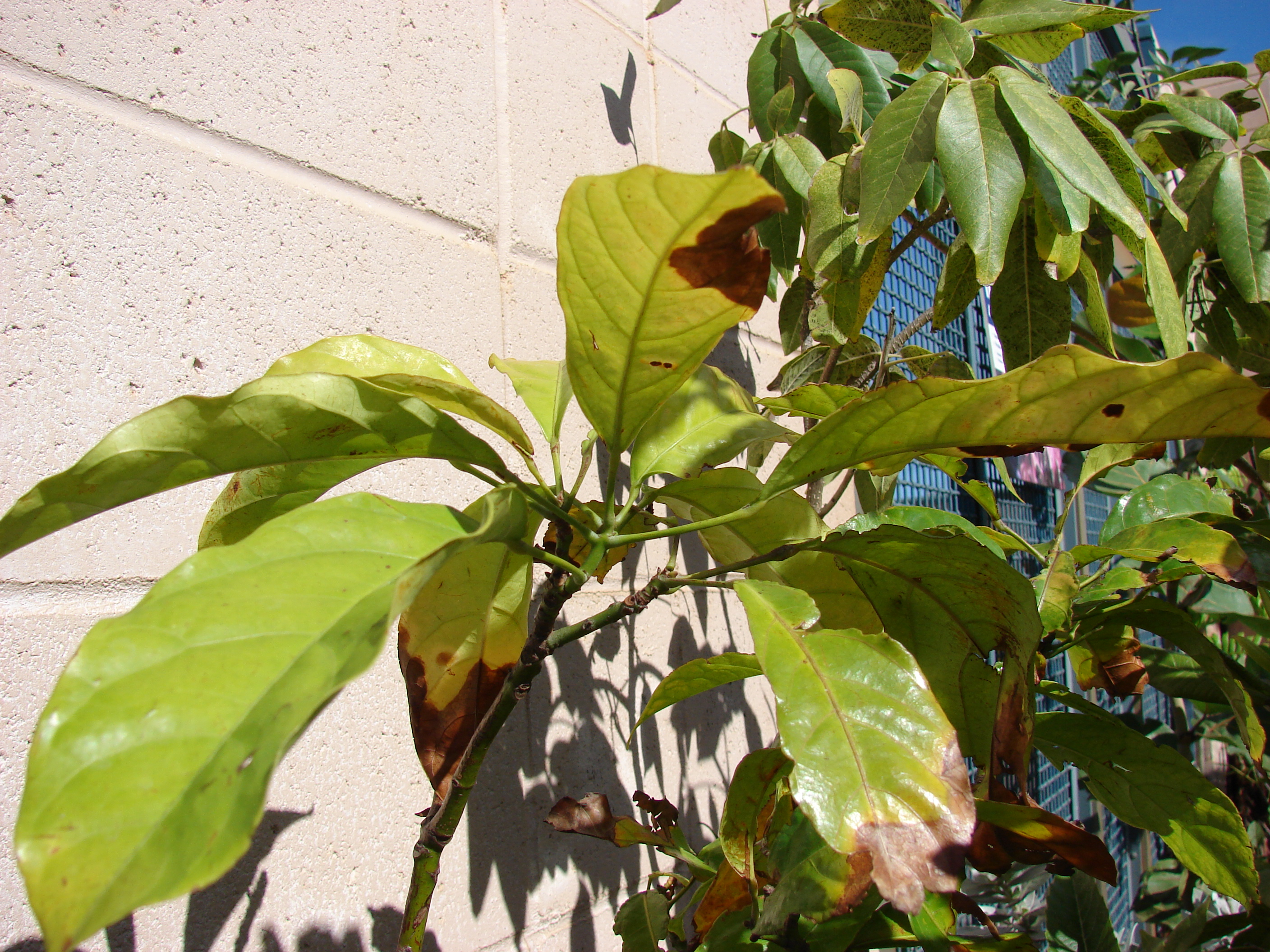 Cola nitida (leaves). Location: Maui, Lowes Garden Center Kahului